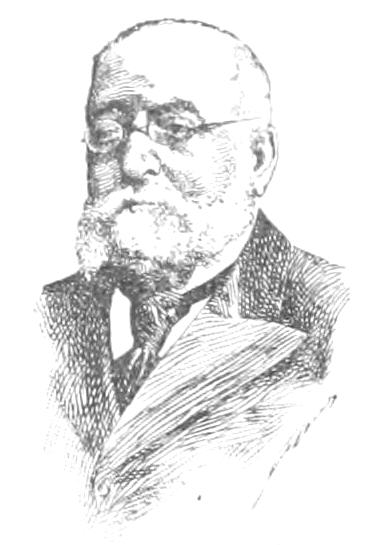 Sir Henry Drummond-Wolff GCB, GCMG, PC (1830 – 11 October 1908)